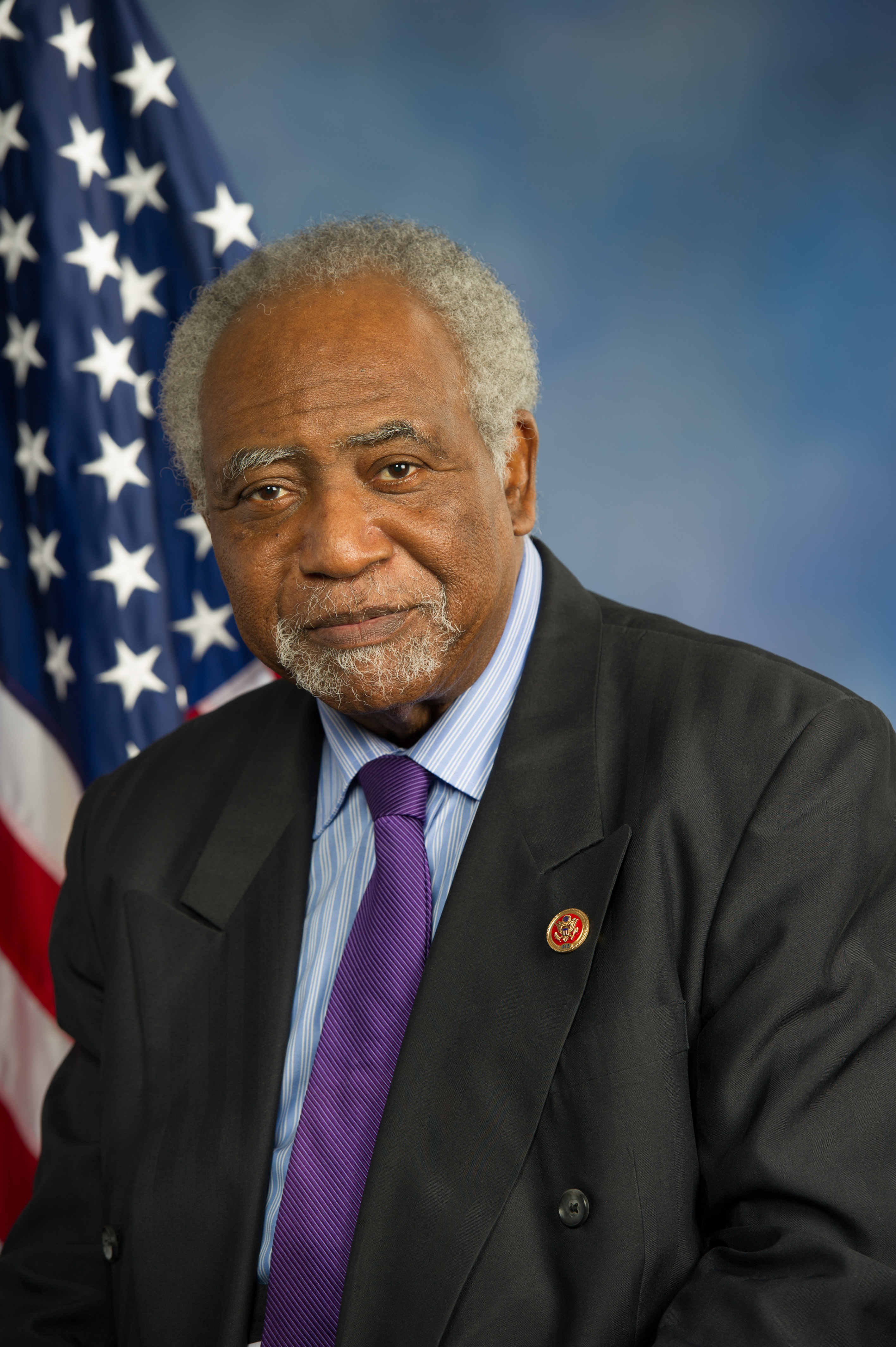 Official portrait of Danny K. Davis, for the 113th Congress